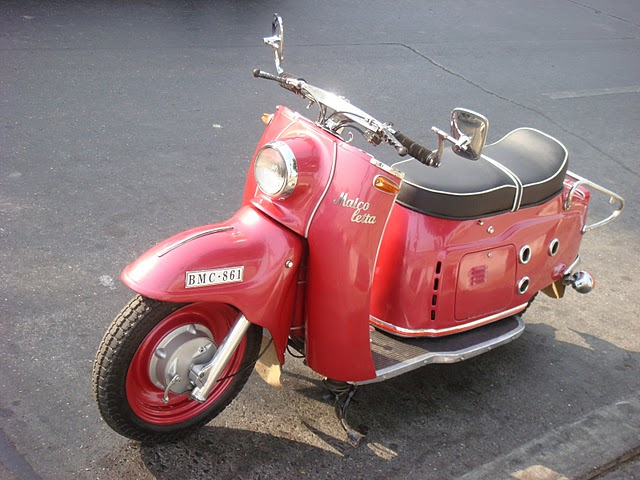 Maicoletta